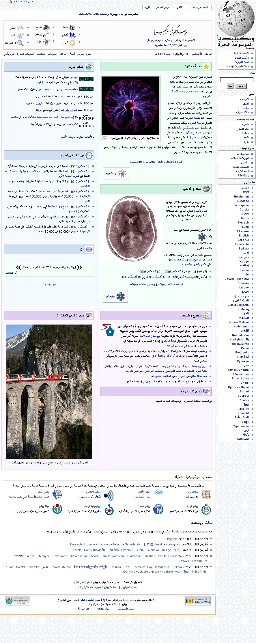 Screenshot of the Arabic Wikipedia on 6 August 2008.